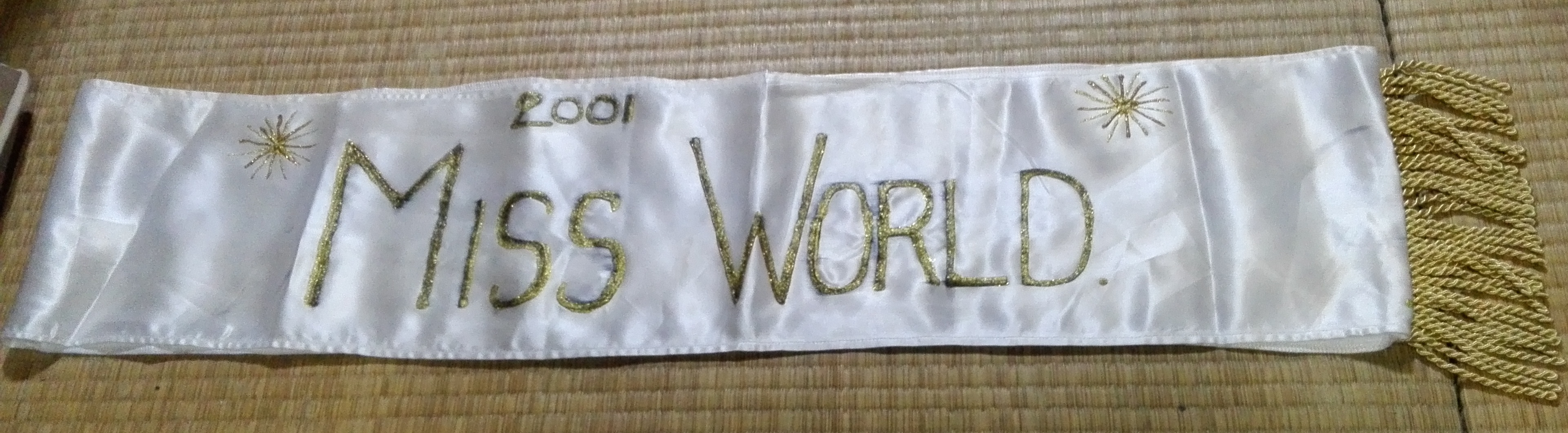 2001 Miss World Australia sash